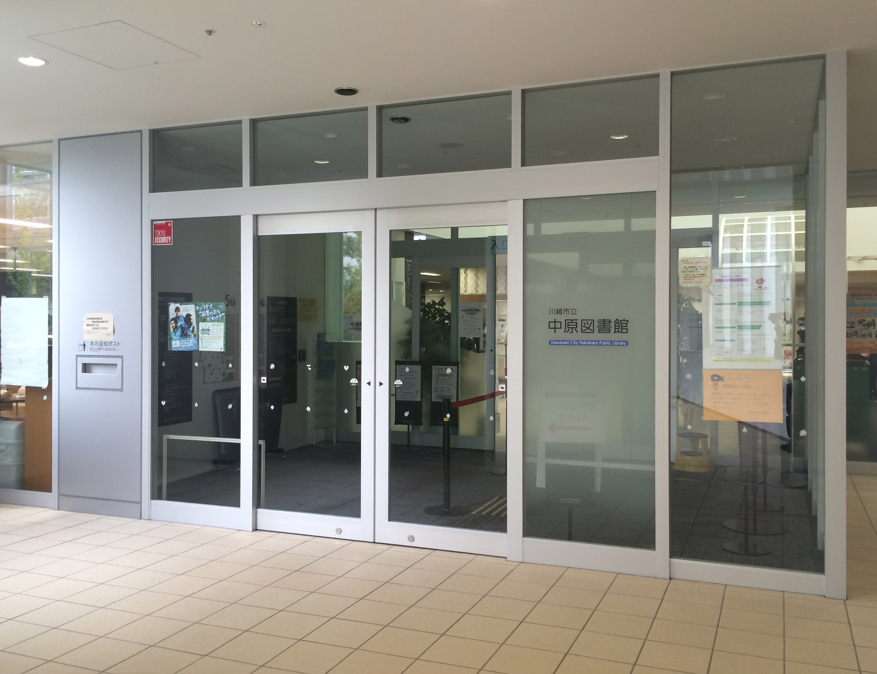 Entrance of Kawasaki City Nakahara Library which is open in building in front of Musashikosugi station